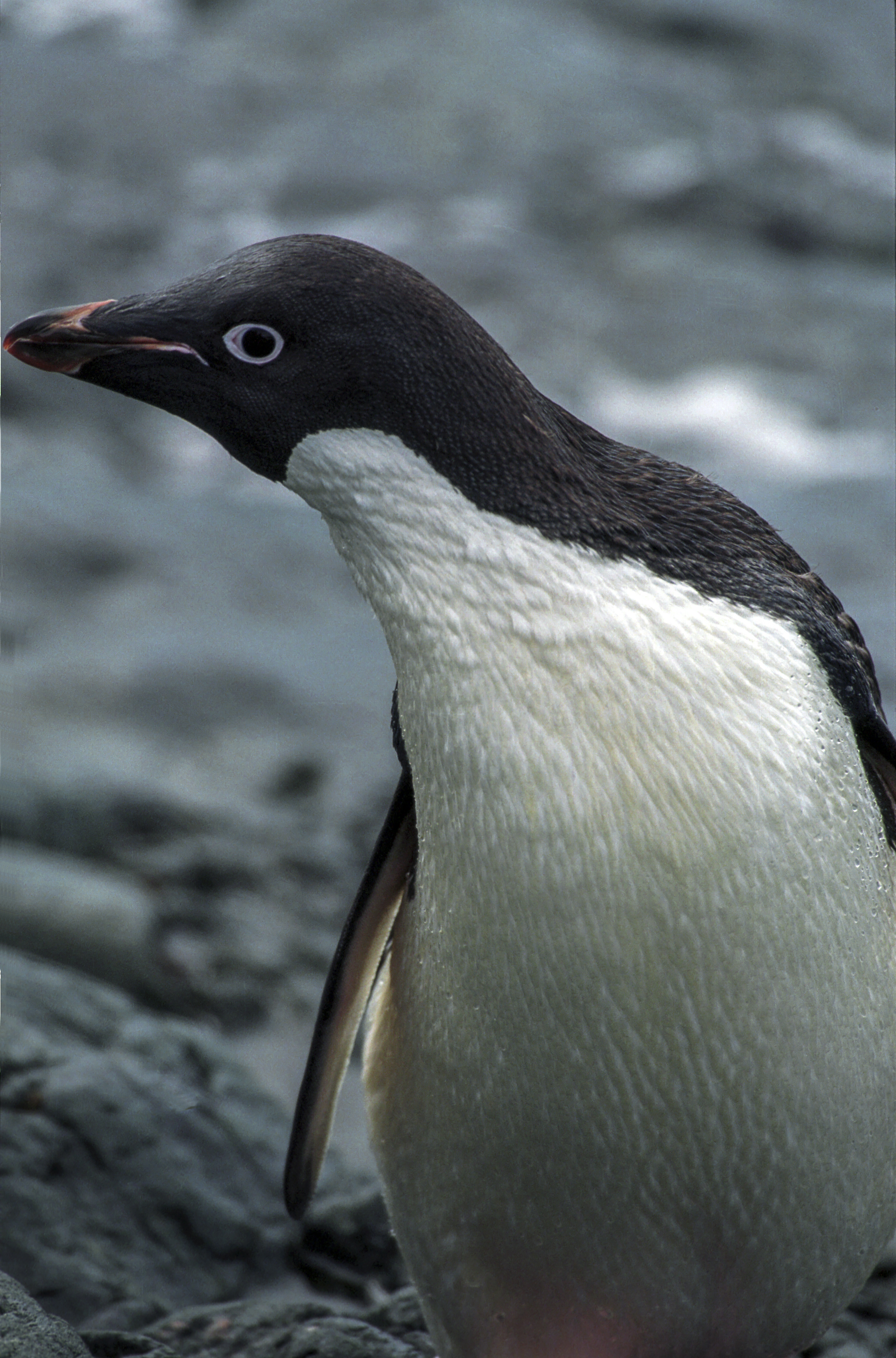 Adelie Penguin